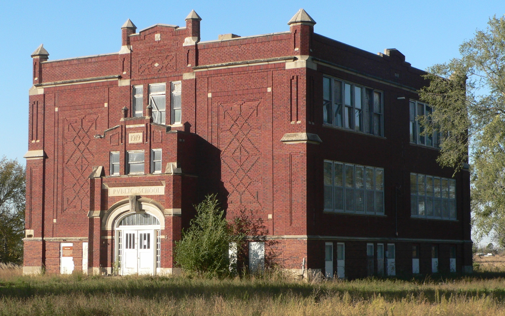 Herrick School, on west side of 8th Street in the northern part of Herrick, South Dakota; seen from the northeast.